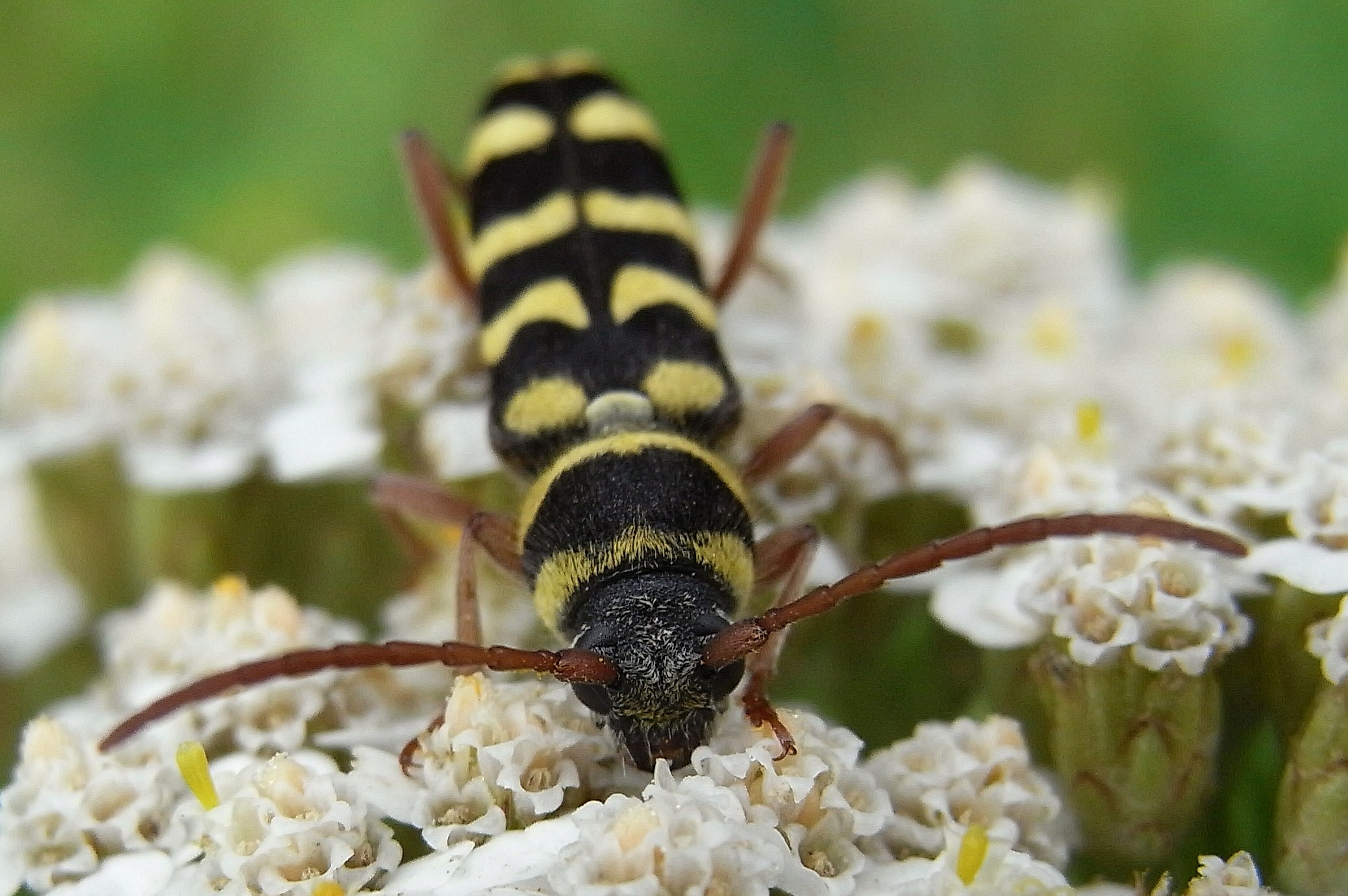 Plagionotus floralis from Hungary, north of Tatabanya, from 2010-07-05Ricoh R8